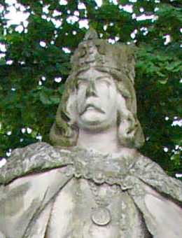 detail of statue of George of Podebrady. The statue is in Kunštát (Czech Republic).